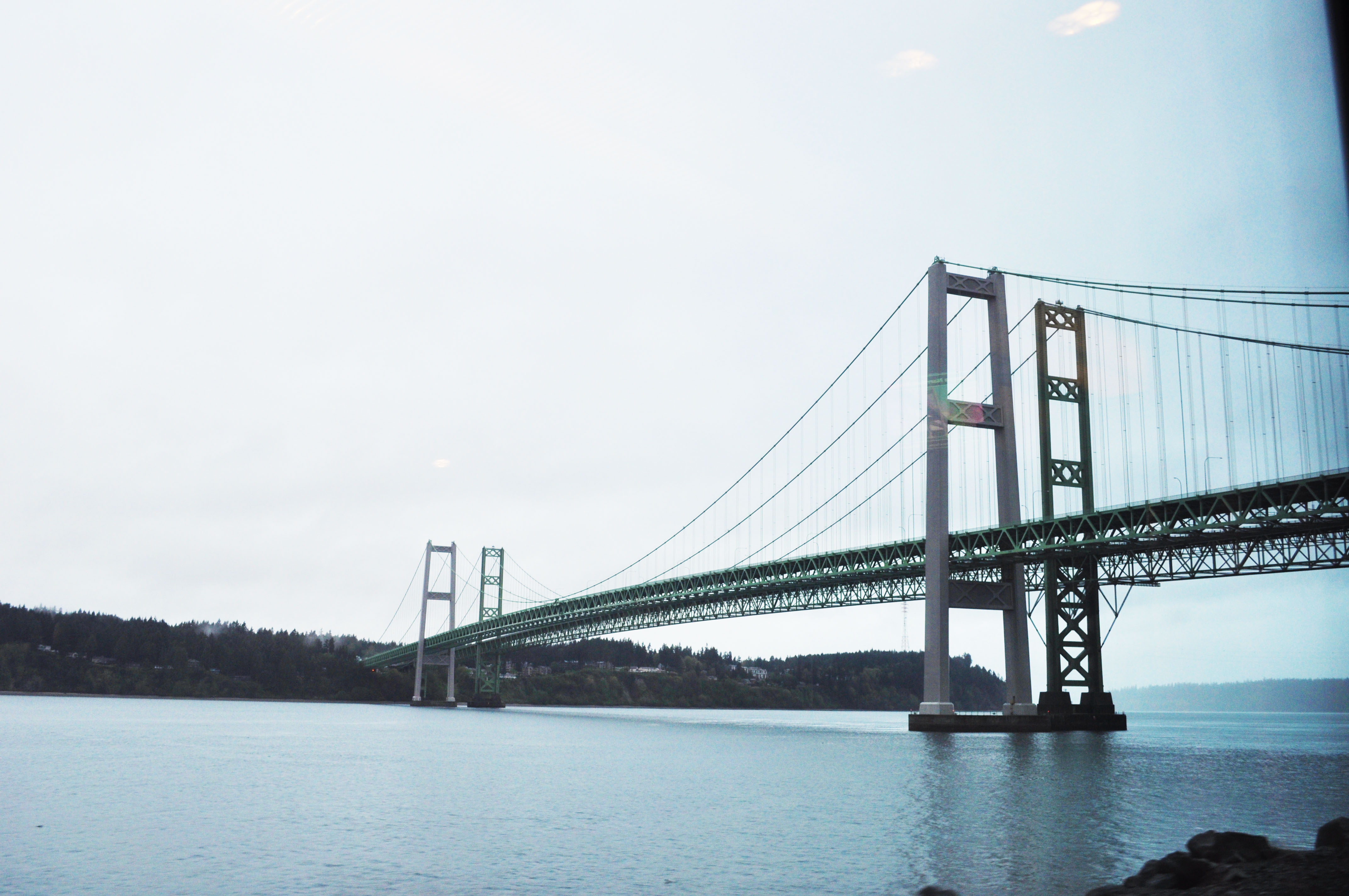 Tacoma Narrows Bridge